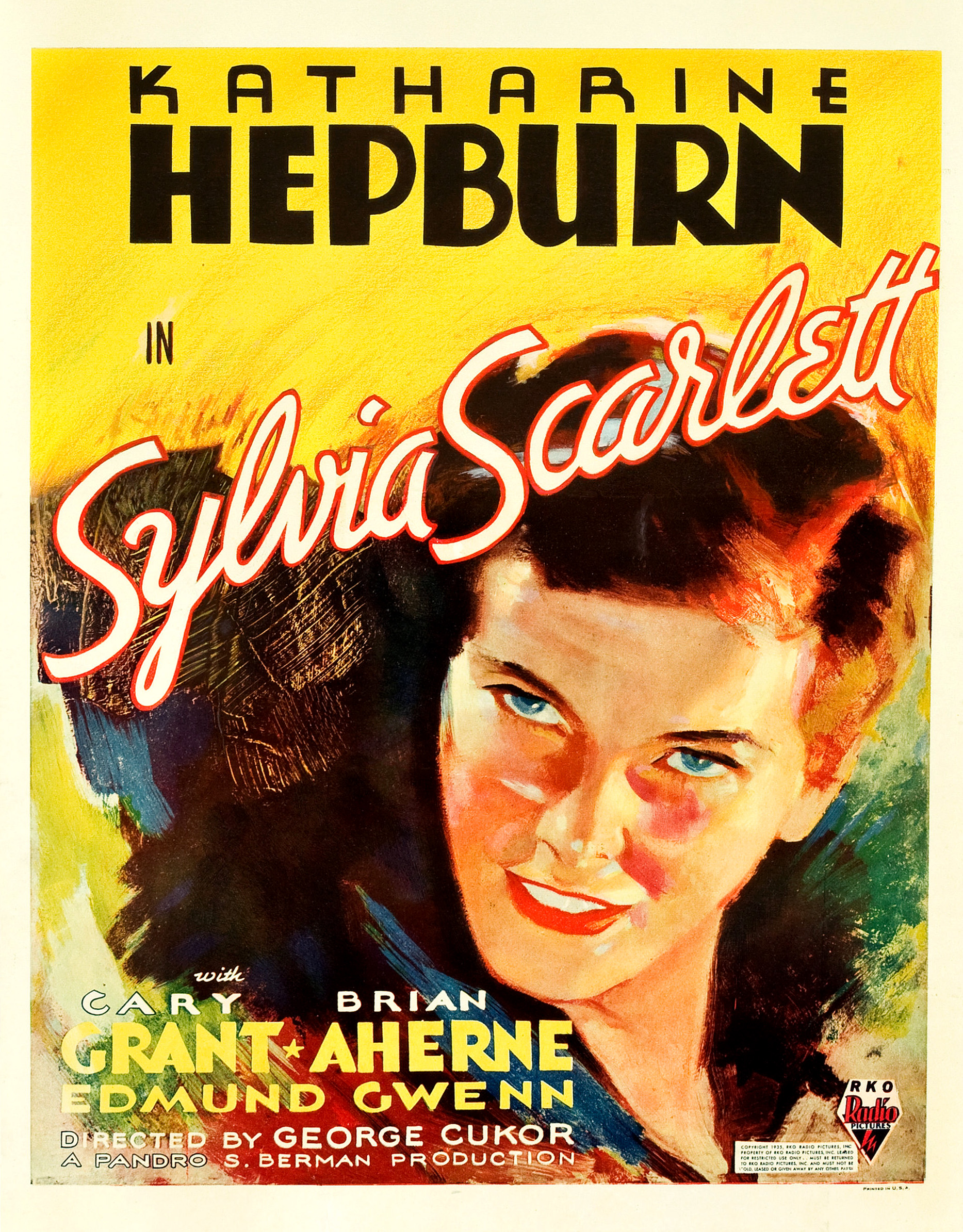 Window card poster for the 1935 film Sylvia Scarlett.